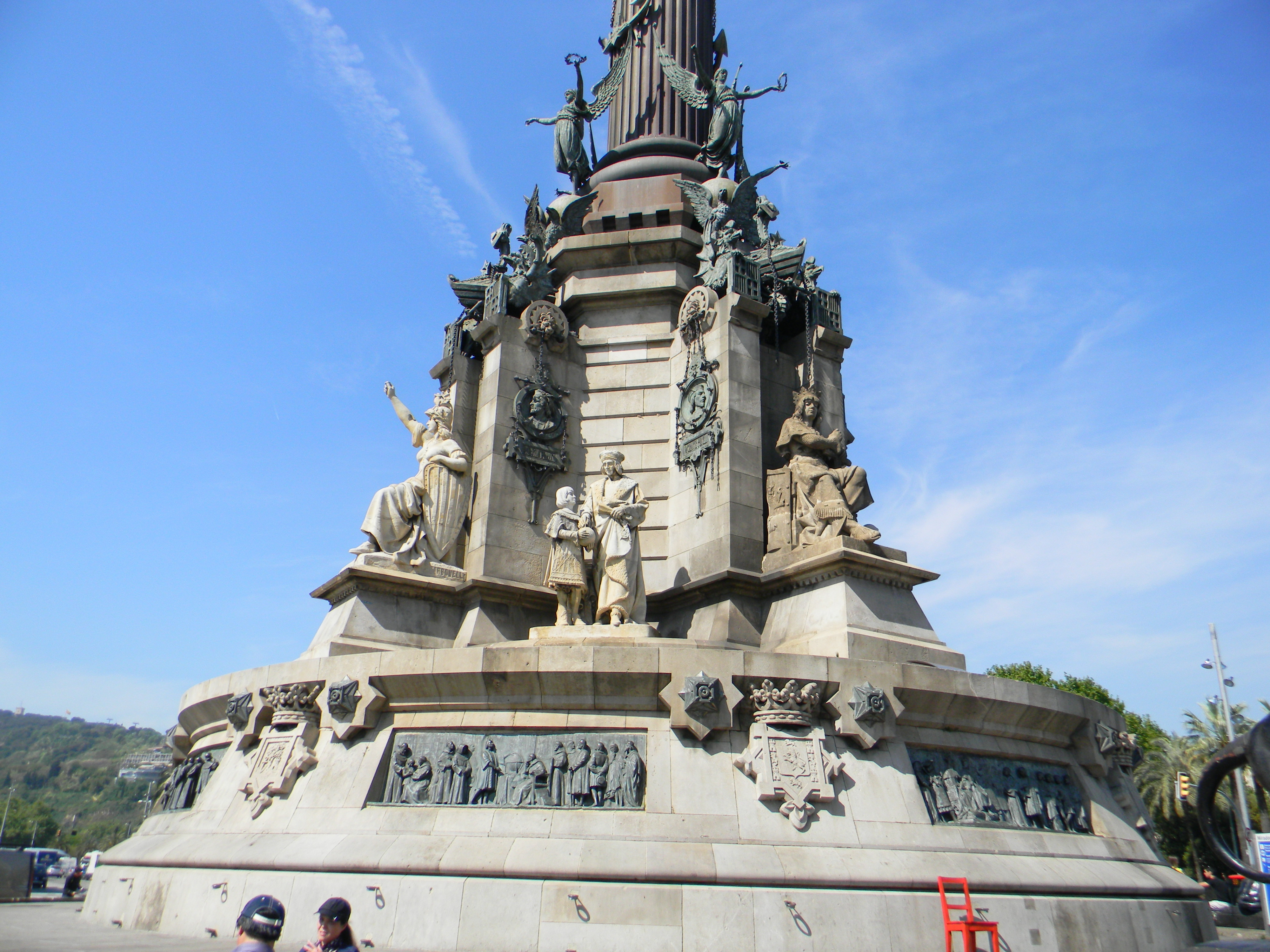 Monument a Colom (Barcelona), Spain